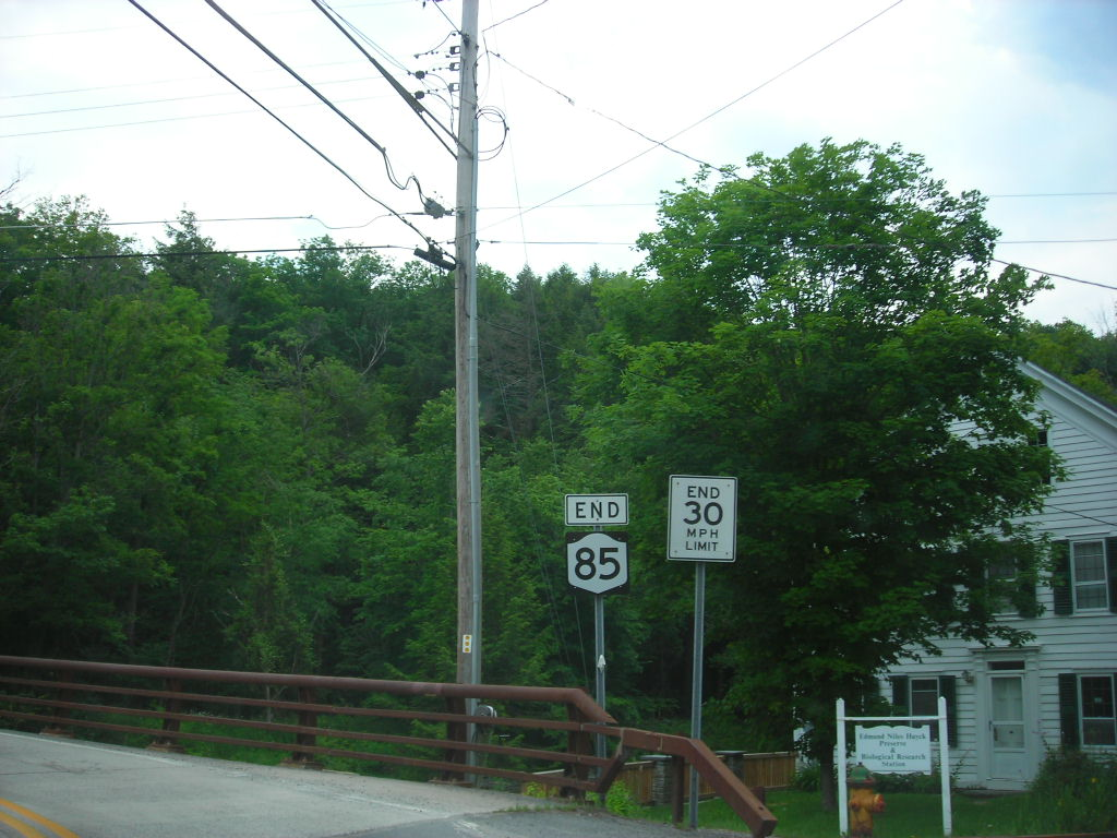 New York State Route 85 at the Ten Mile Creek Bridge in Rensellaerville, New York.